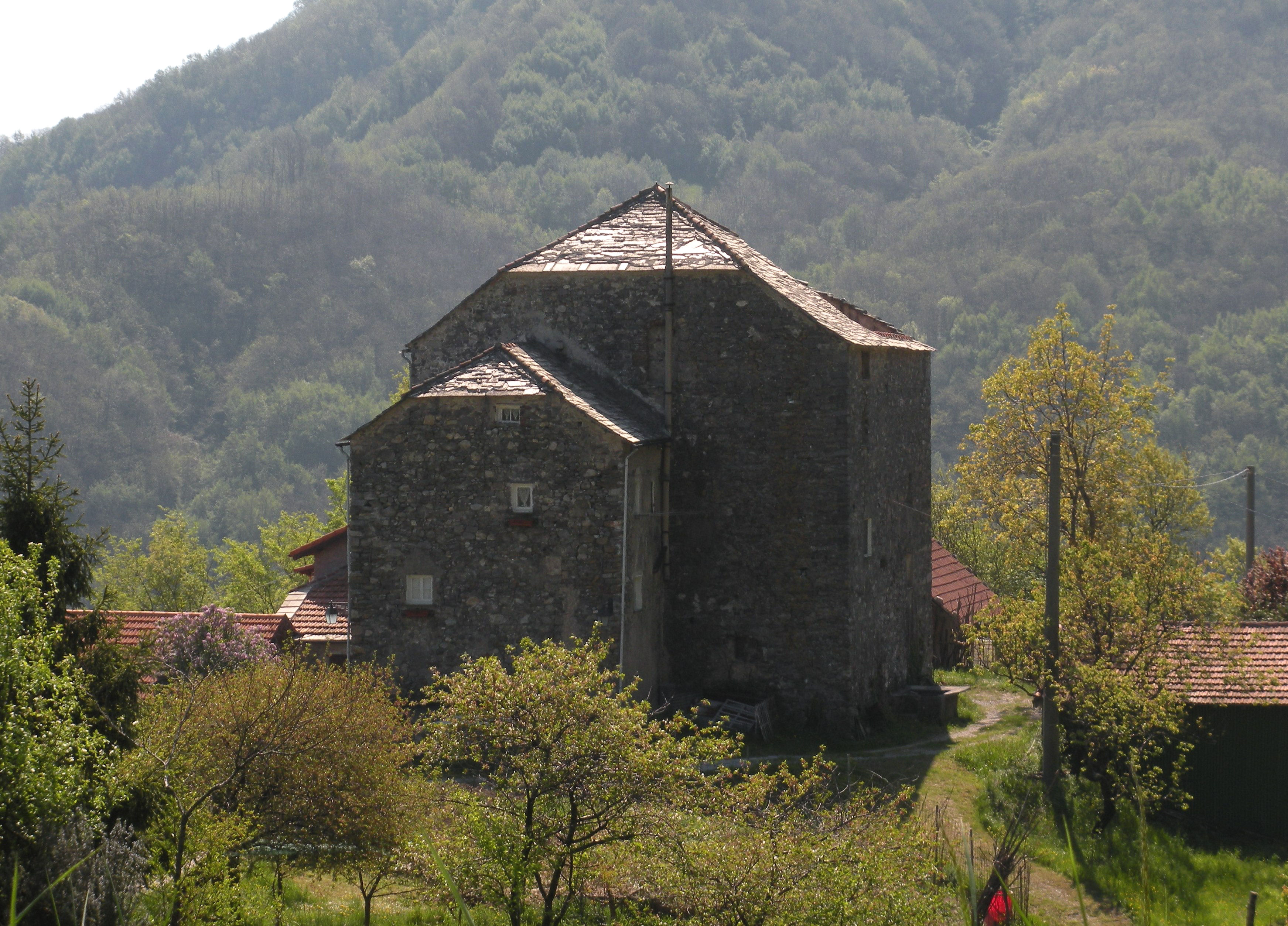 Ceranesi, province of Genoa, Italy, the building called "Paxo", in the village of Torbi